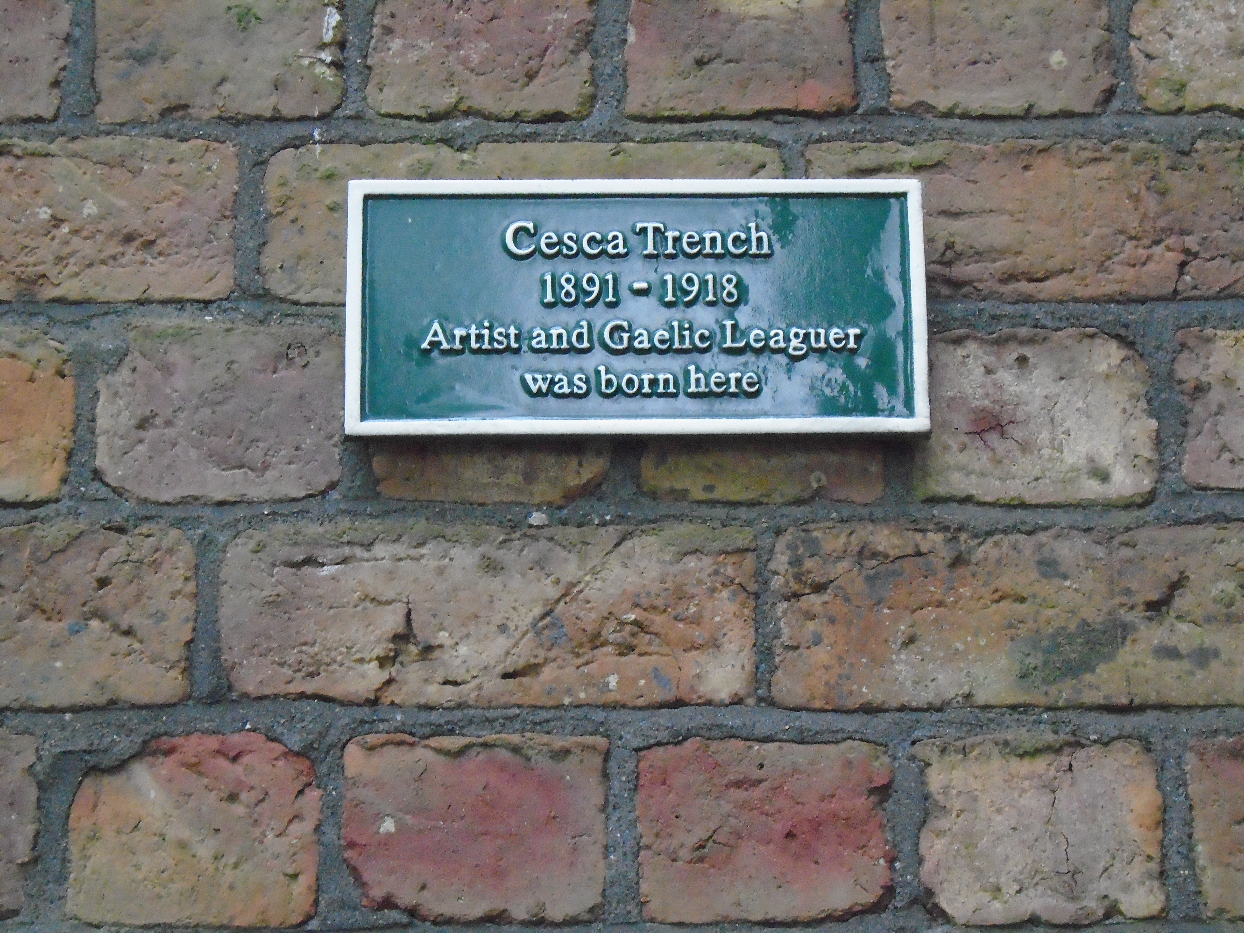 Plaque by the front door of the vicarage to Cesca Chenevix Trench, granddaughter of the Archbishop of Dublin; she was an illustrator and Celtic revivalist.